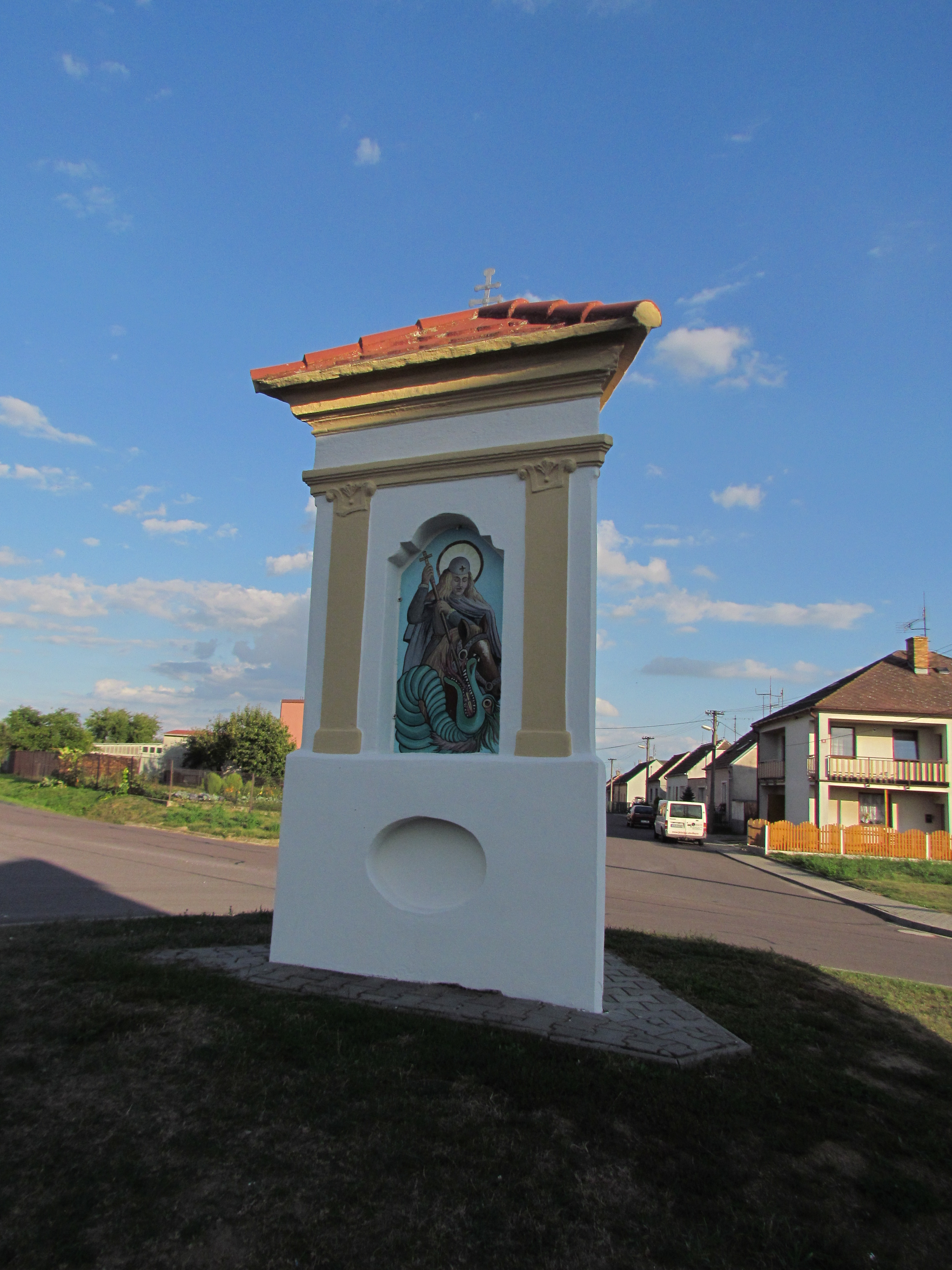 Chapel of Holy Trinity in Zvěrkovice, Třebíč District.